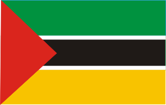 Frelimo 1962-1983